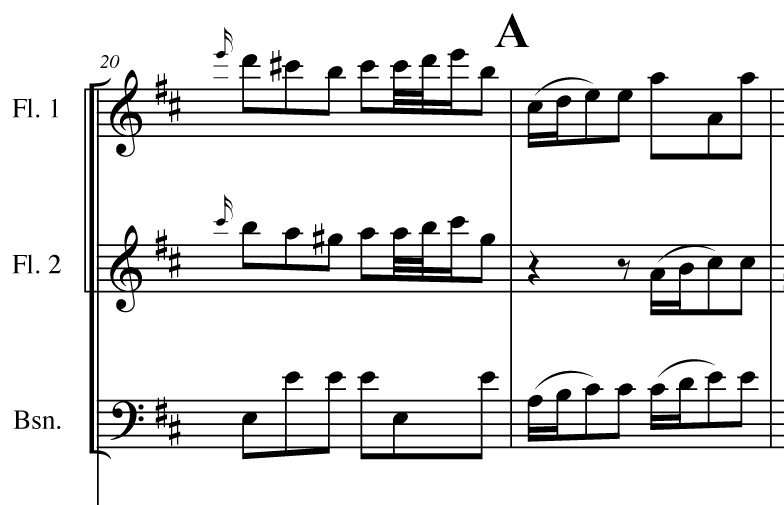 From a full score of Christoph Graupner's Symphony in D major, Nagel 75. I added a rehearsal letter, A, at measure 21 of the third movement, just to illustrate the concept of rehearsal letters. I entered the music in Finale 2006, and added the rehearsal letter with Adobe Photoshop.